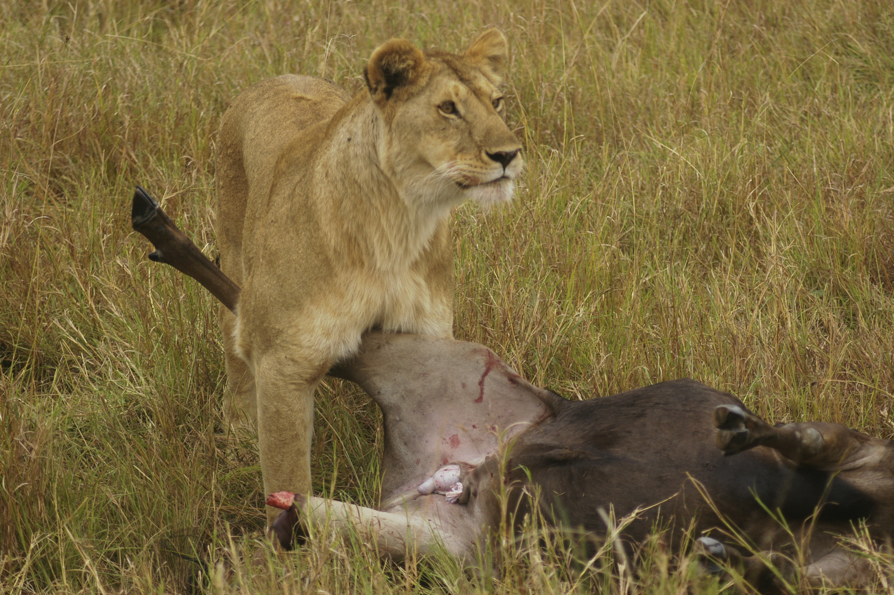 Lioness with Wildebeast kill, Masai Mara National Reserve